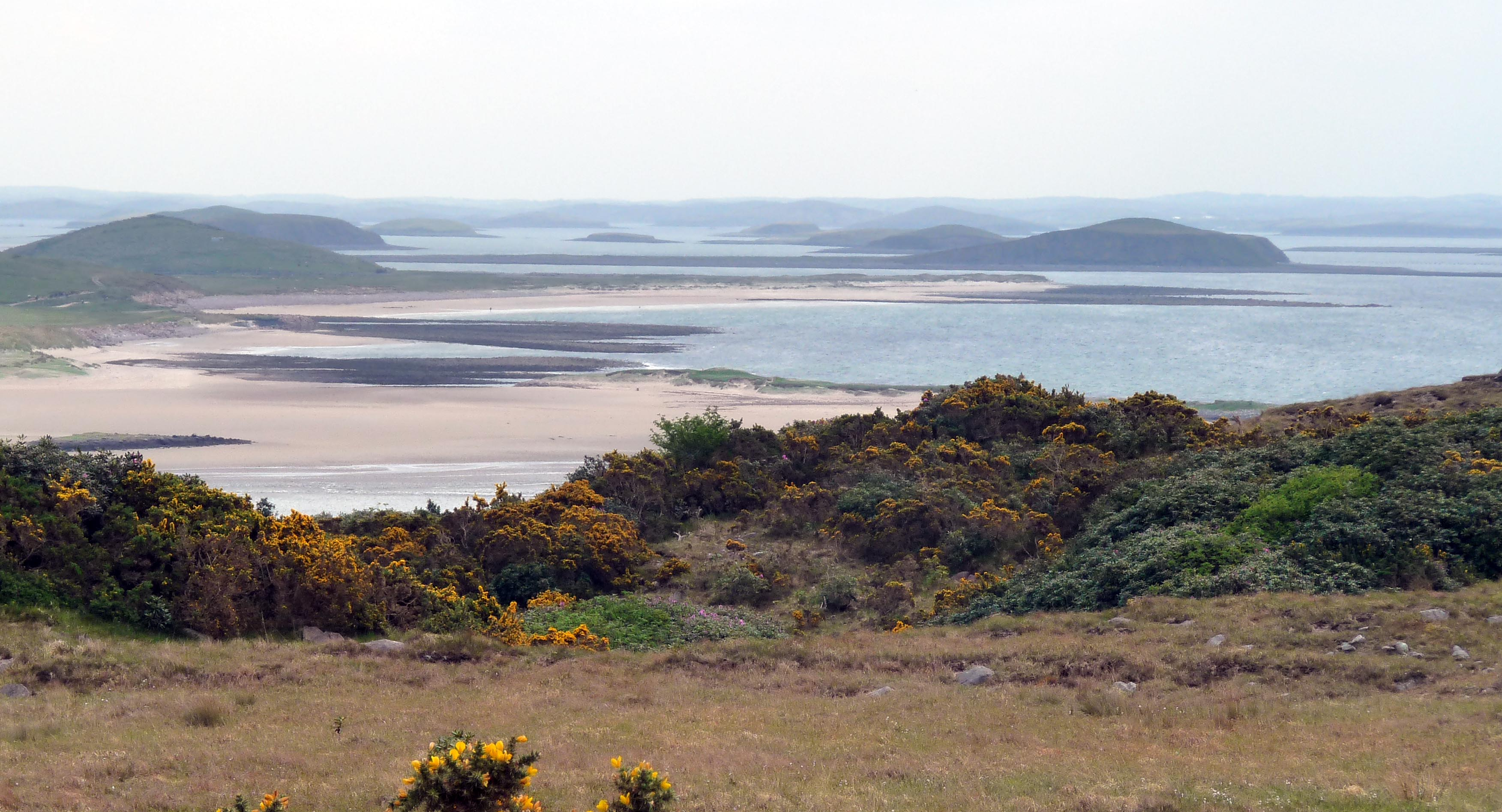 Achill, Corraun, Clew Bay